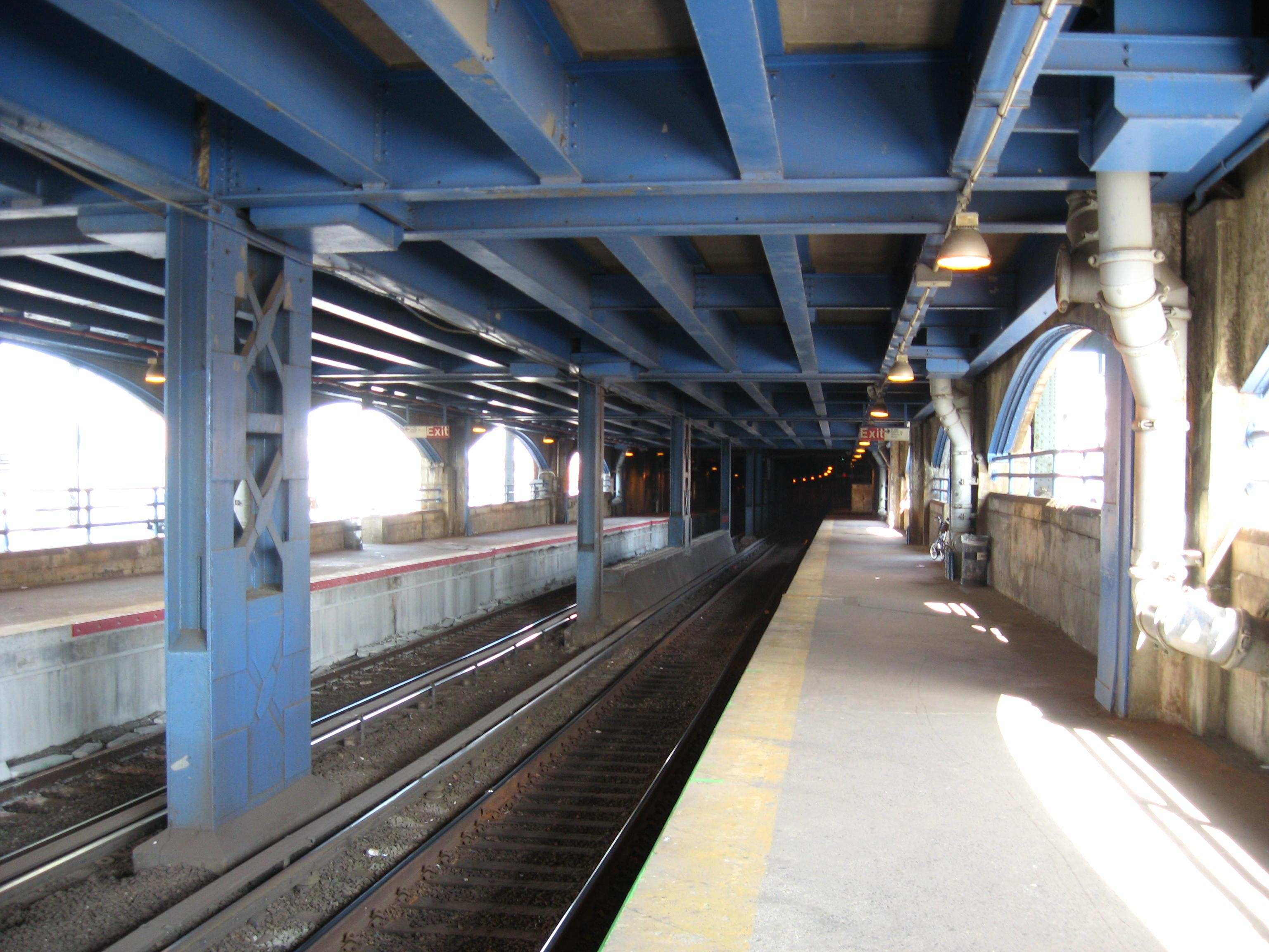 Looking east on eastbound platform of East_New_York_(LIRR_station) on a sunny spring afternoon.